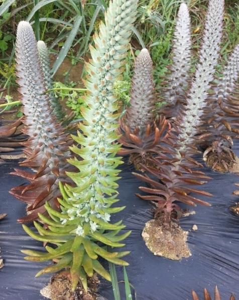 Orostachys Japonica